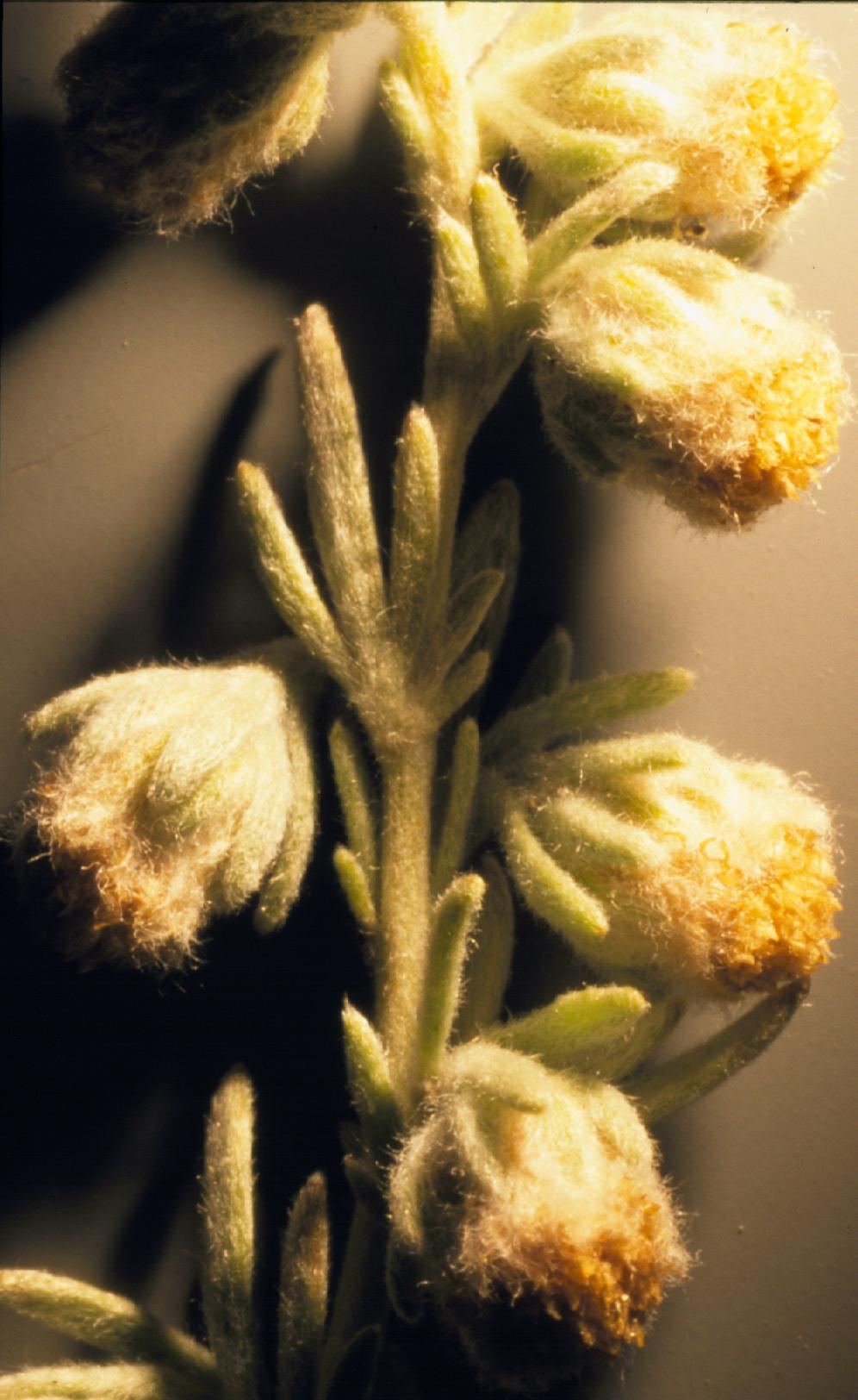 The inflorescence bracts are dissected in a similar manner to the stem leaves. All flowers can produce a viable fruit and the receptacle is hairy, feature that related prairie sagewort to absinthium and alpine sagebrush.